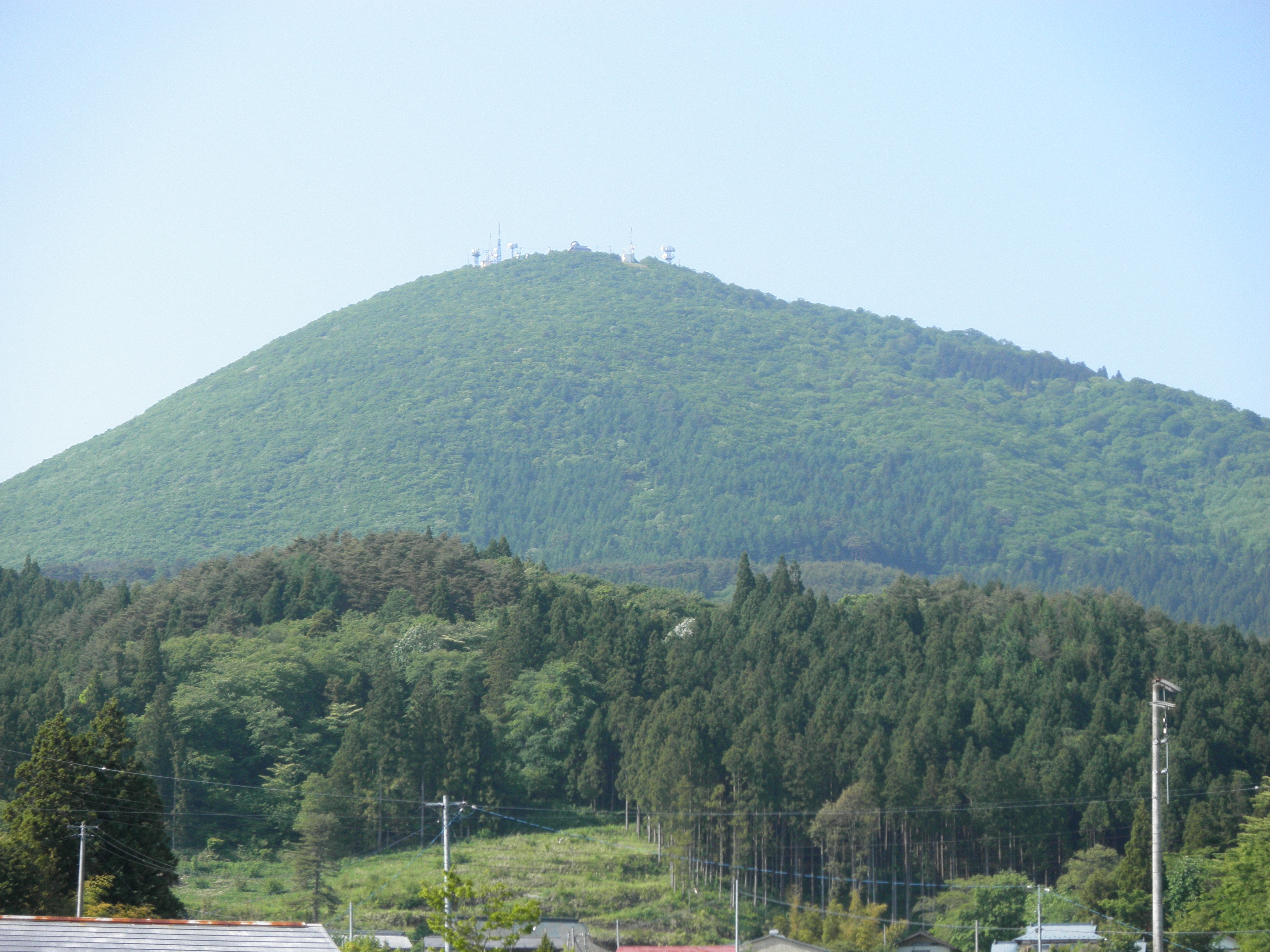 Mount Murone (Muronesan) in early summer, seen from the south